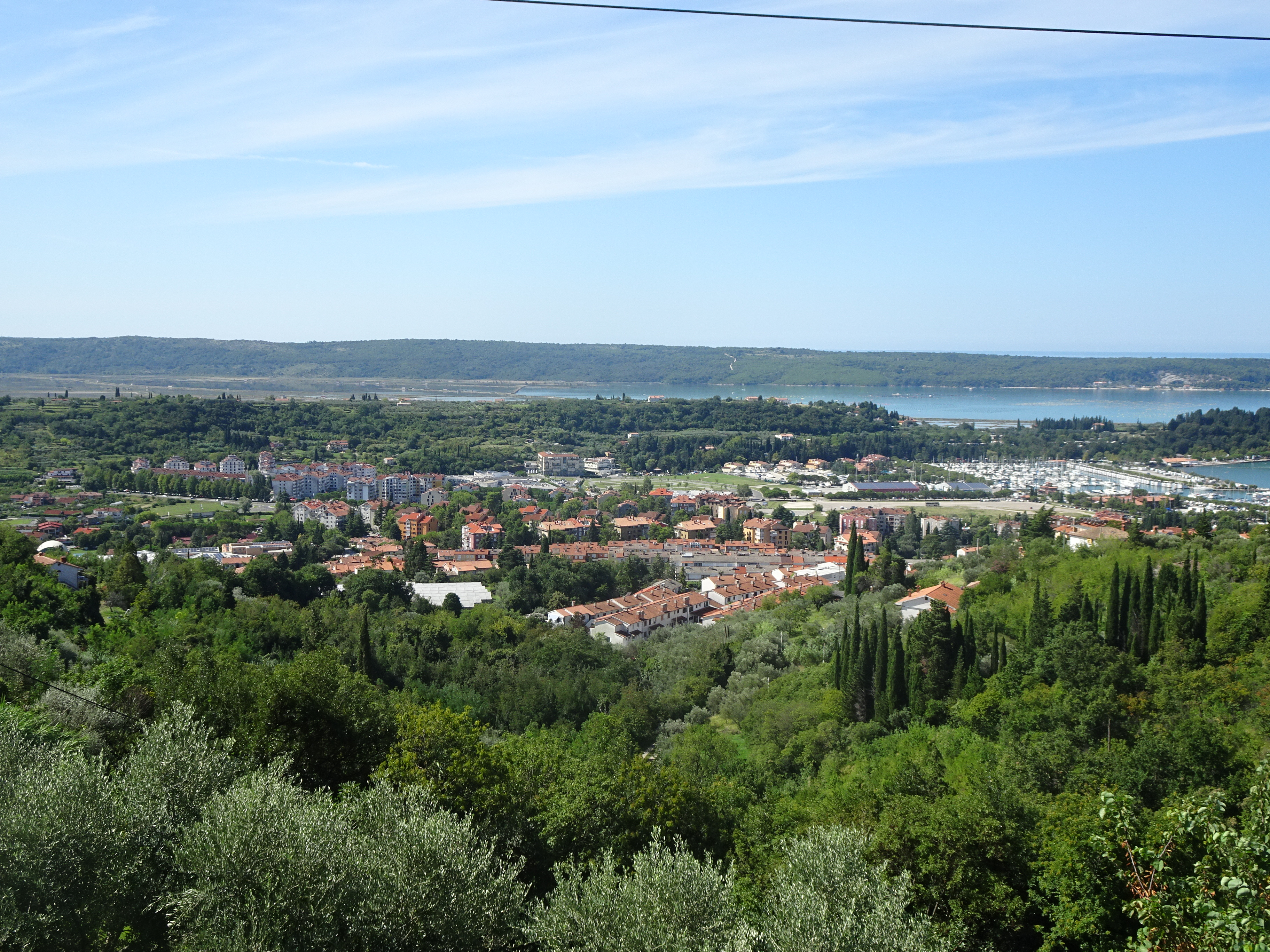 Lucija, Piran municipality, Slovenia